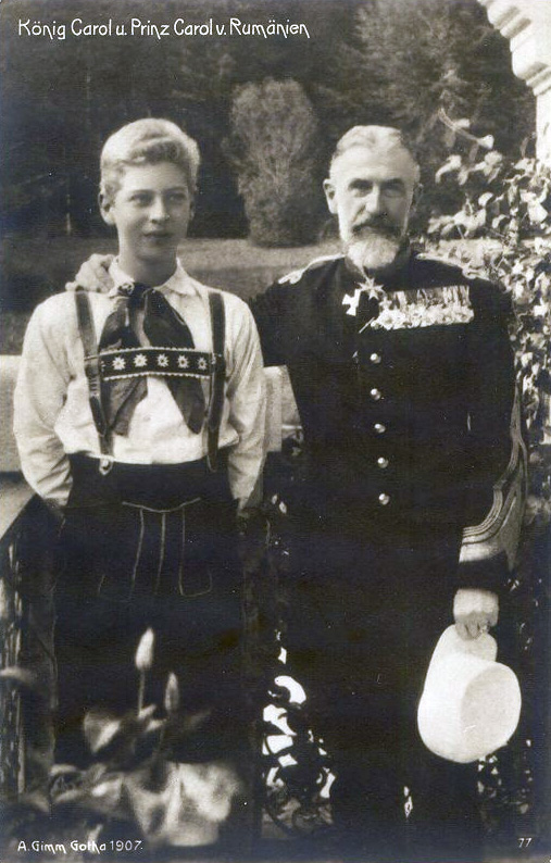 King Carol I of Romania with his son and heir, Carol II (1907).